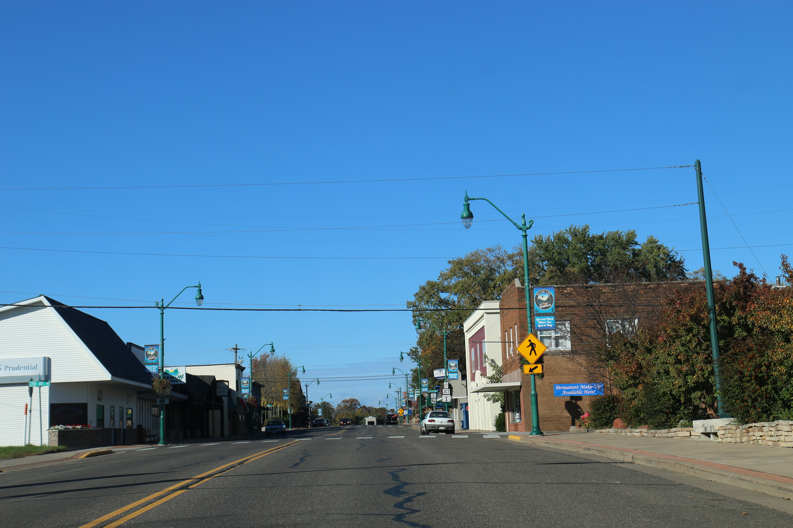 Downtown Balsam Lake on WIS46.